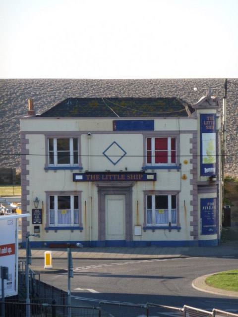 Portland: the Little Ship This pub at Chiswell is dwarfed by the Chesil Beach shingle bank behind it.